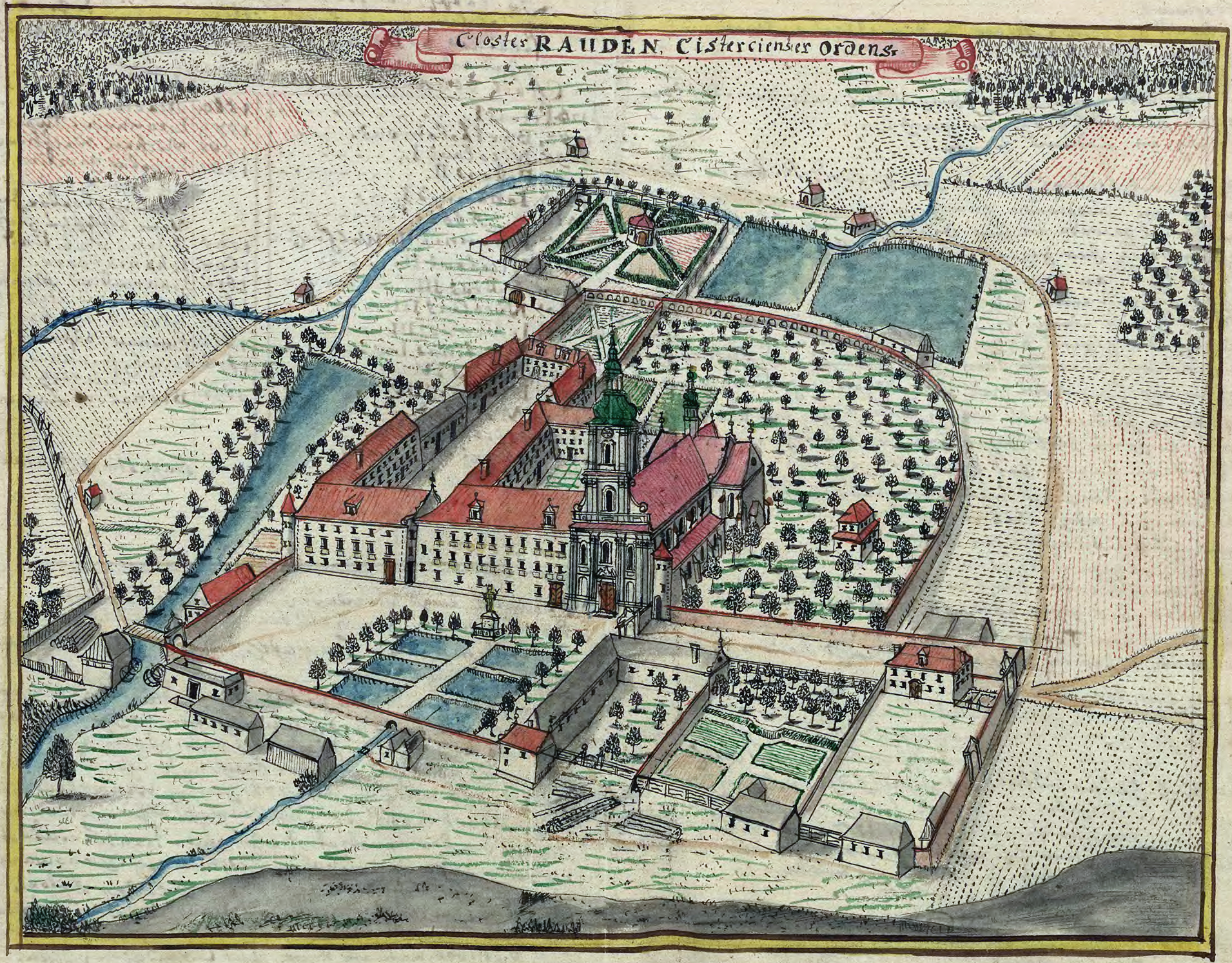 Monastery in Rudy Wielkie.